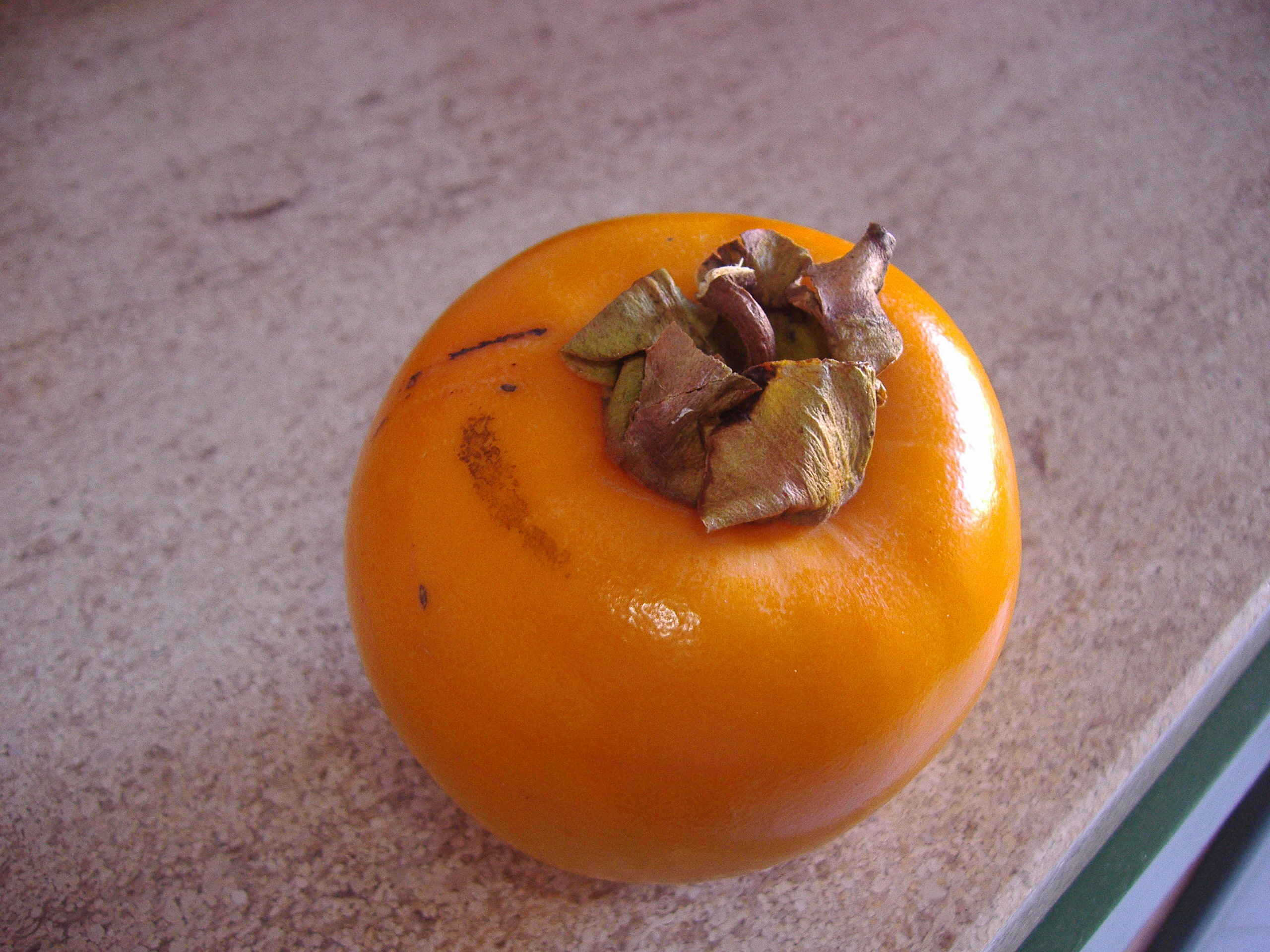 A Digital Photograph of a Persimmon fruit 26th November 2007 by Haydnaston